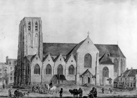 Saint Gaugericus Church, Brussels. Built 1520-1564, demolished 1798-1802.